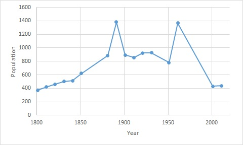 Total population of Birling Civil Parish, Kent, as reported by the Census of Population from 1801 to 2011.